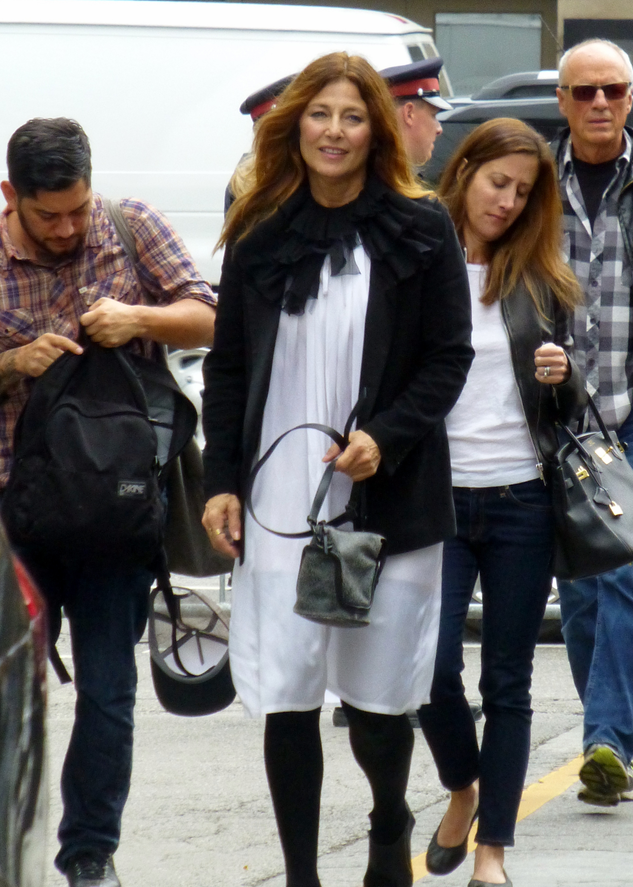 Catherine Keener at Elephant Song press conference, 2014 Toronto Film Festival